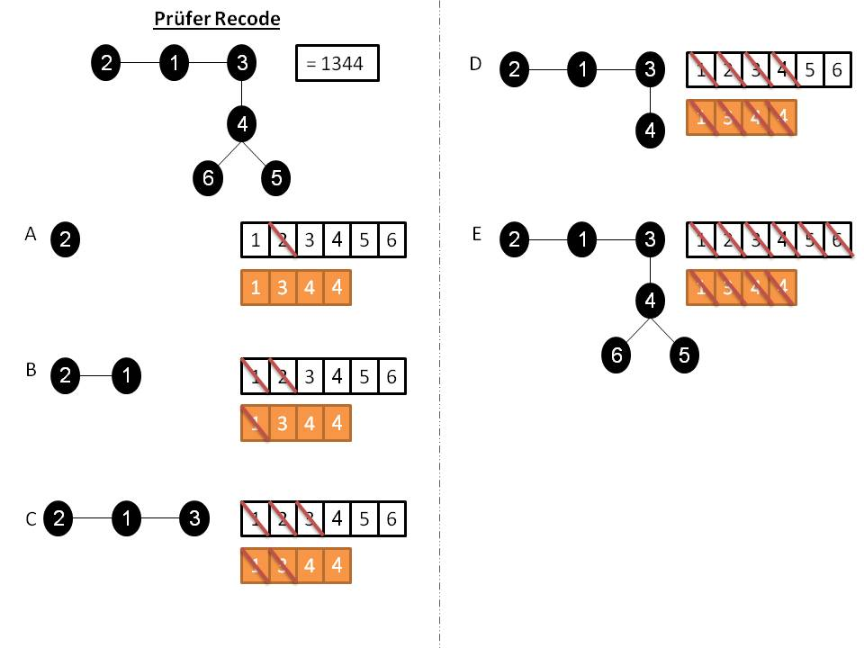 PRUPER RECODE - from code to graph